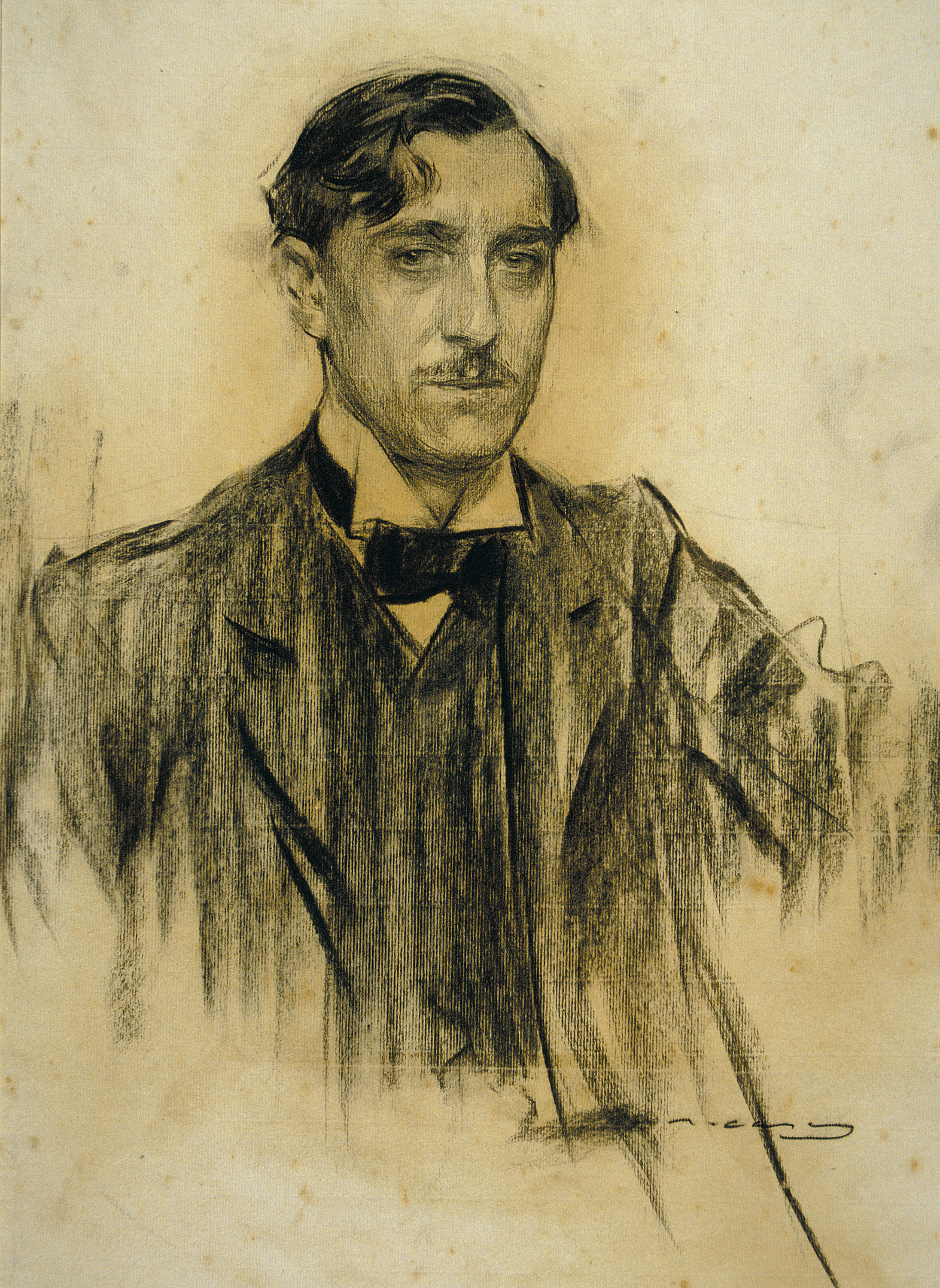 Portrait by Ramon Casas conserved at MNAC in Barcelona.